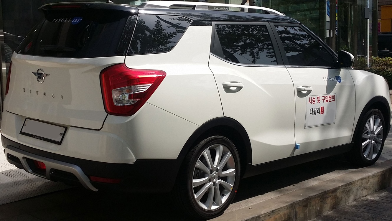 SsangYong Tivoli Air